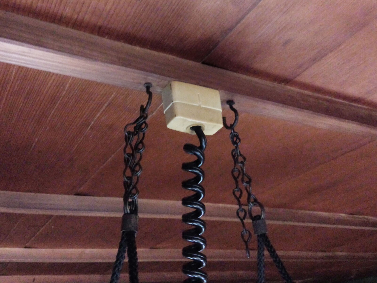 Japanese Ceiling Rosette (Hangs Heavy Lighting Equipment over 5kg)